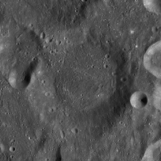 Mees crater, on the far side of the moon. Mosaic of LRO WAC images.